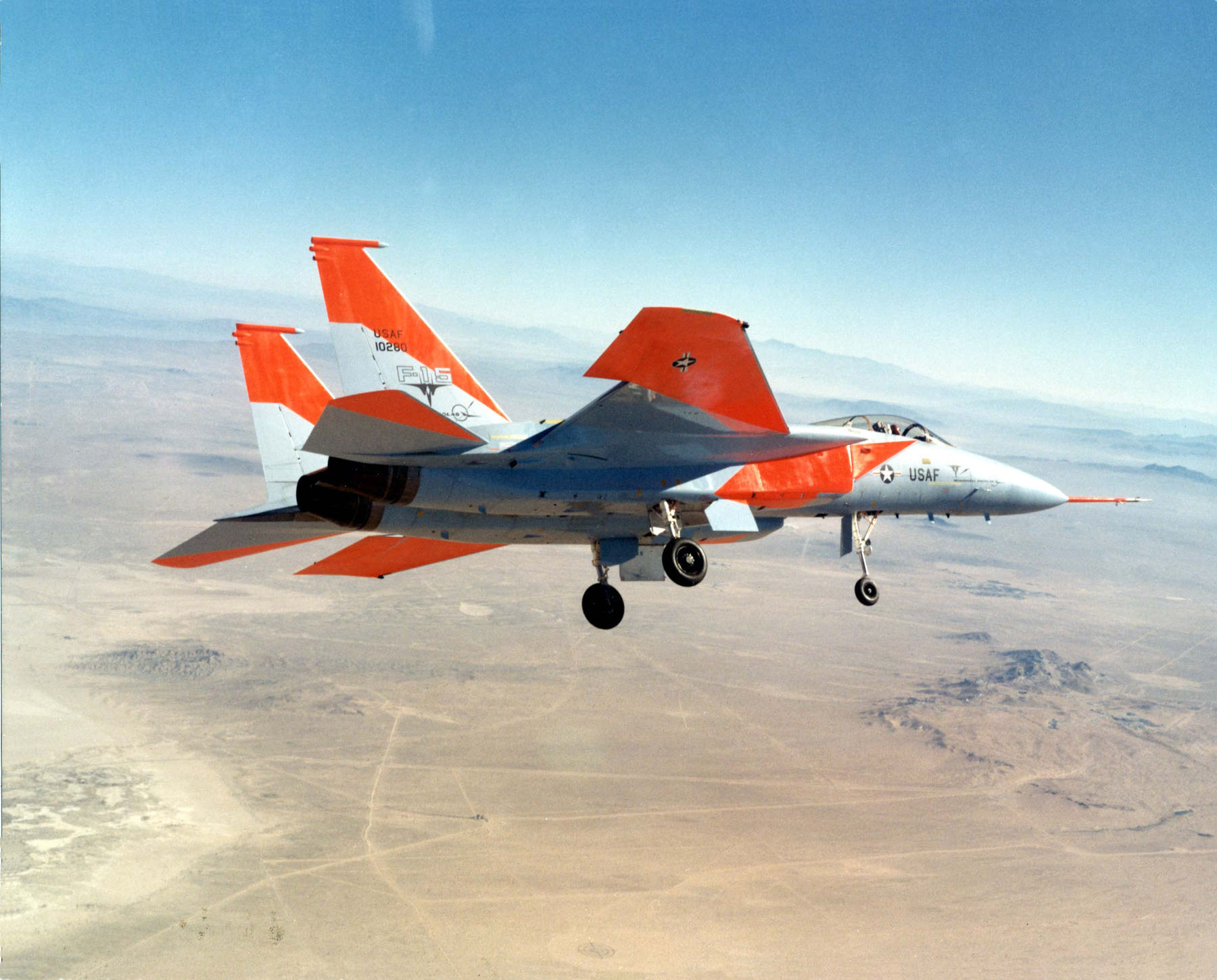 McDonnell Douglas F-15A (S/N 71-0280) landing approach.